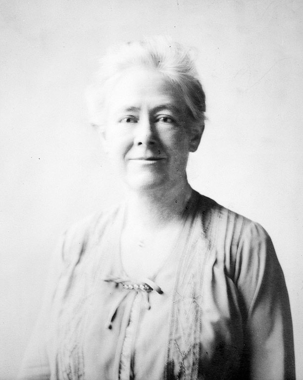 Mary Vaux Walcott (1860-1940), third wife of Charles Doolittle Walcott (1850-1927), fourth Secretary (1907-1927) of the Smithsonian Institution. Mrs. Walcott was a noted wildflower artist and photographer. She is seen here in a formal front-view portrait from 1924.